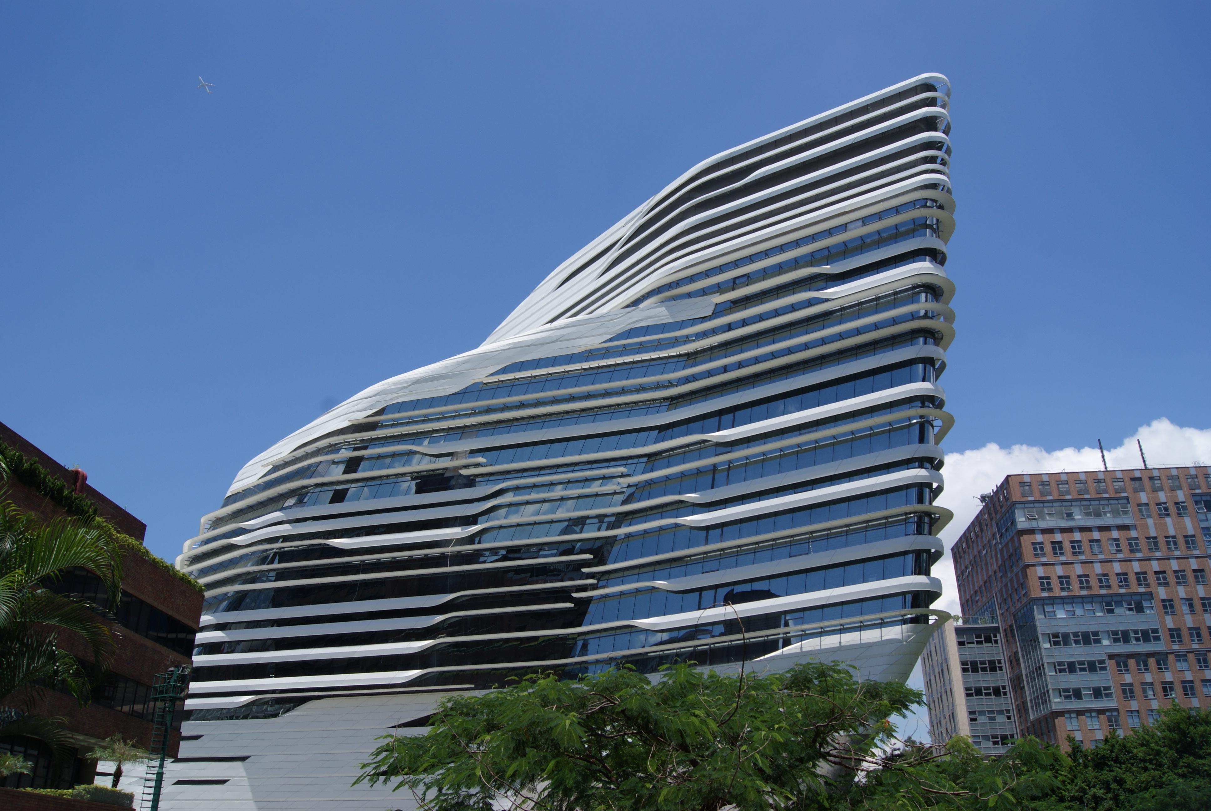 The Jockey Club Innovation Tower, Hong Kong Polytechnic University.